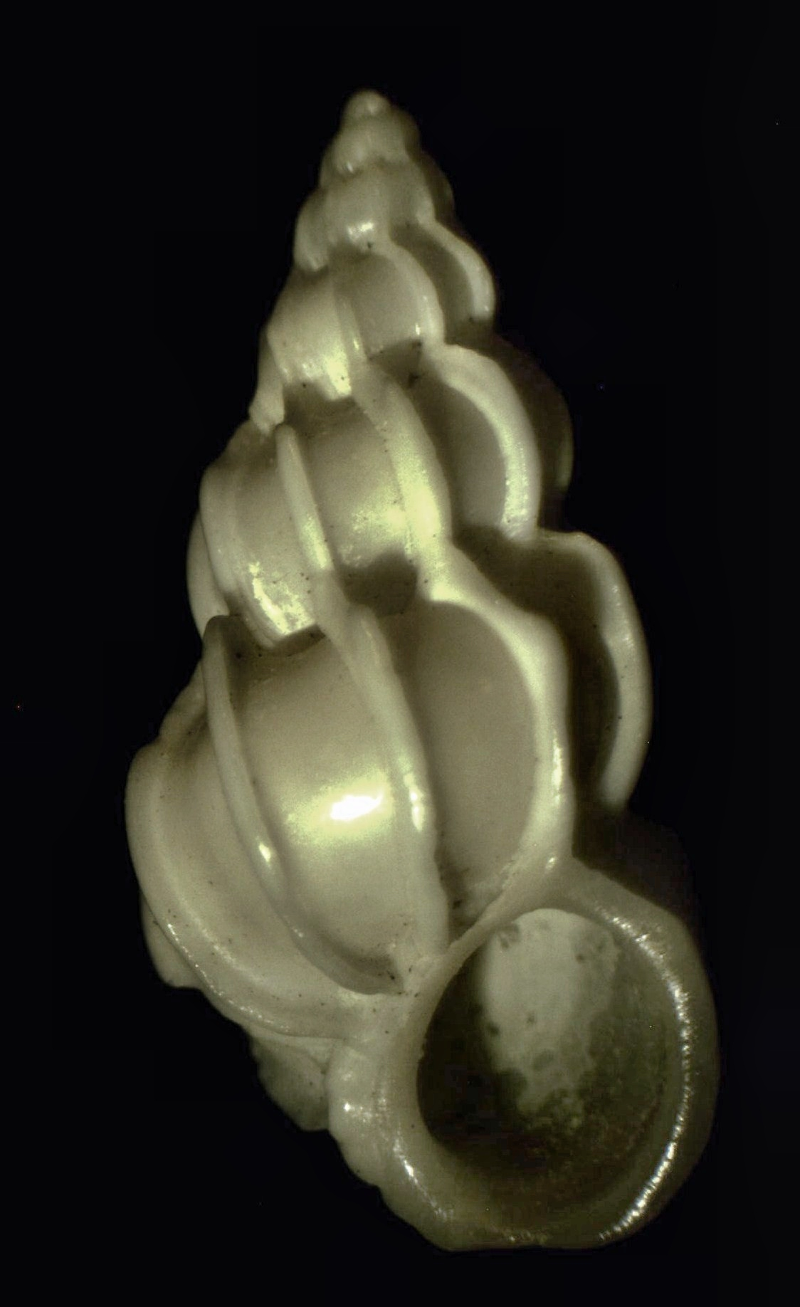 Epitonium hexagonum Sowerby II, 1844; a wentletrap from the family Epitoniidae; Panama